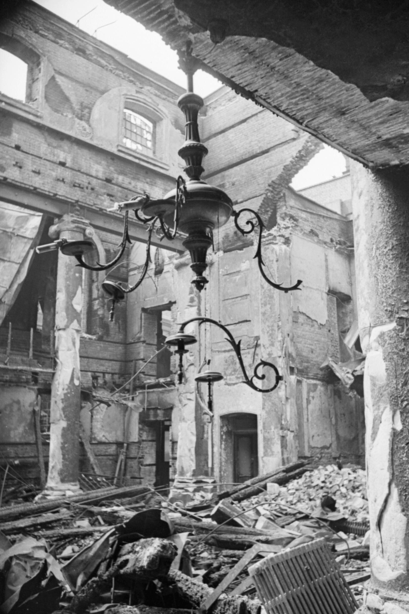 The ruins of the Great Synagogue in Dukes Place, London, which was destroyed by an air raid on the evening of Saturday 10 May 1941. A broken chandelier hangs amidst rubble and timber in the roofless shell of the Great Synagogue, which was destroyed by an air raid on the evening of Saturday 10 May 1941. This photograph was probably taken a few days afterwards.